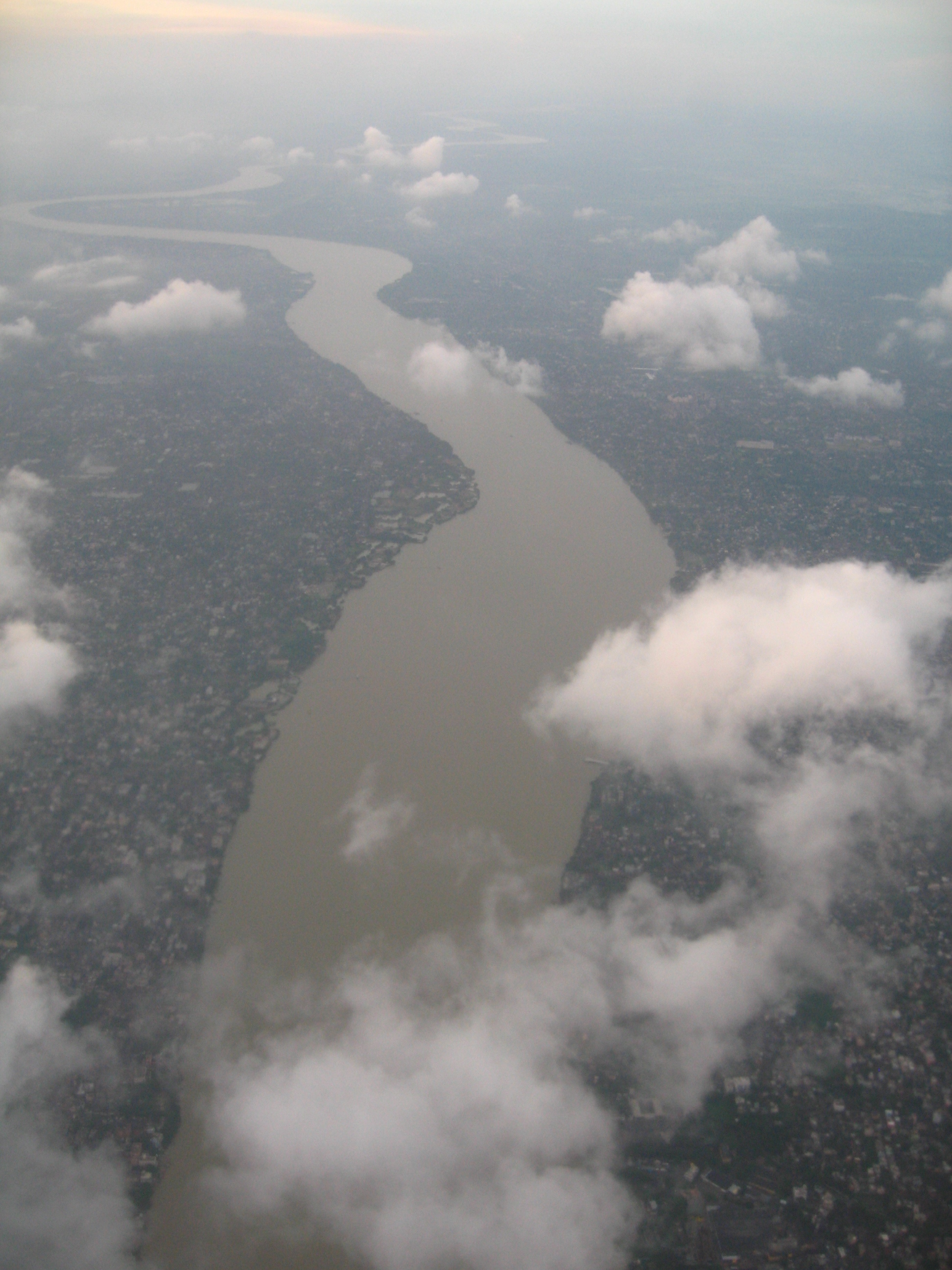 Aerial photo of the Hooghly River, a distributary of the Ganges River, taken above Bally, West Bengal, India